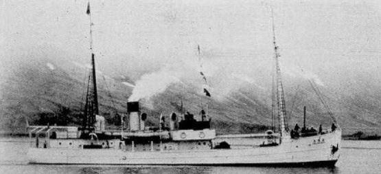 Japanese fishing industry inspection ship Hakuho Maru who was requisitioned by the Imperial Japanese navy and served during World War II